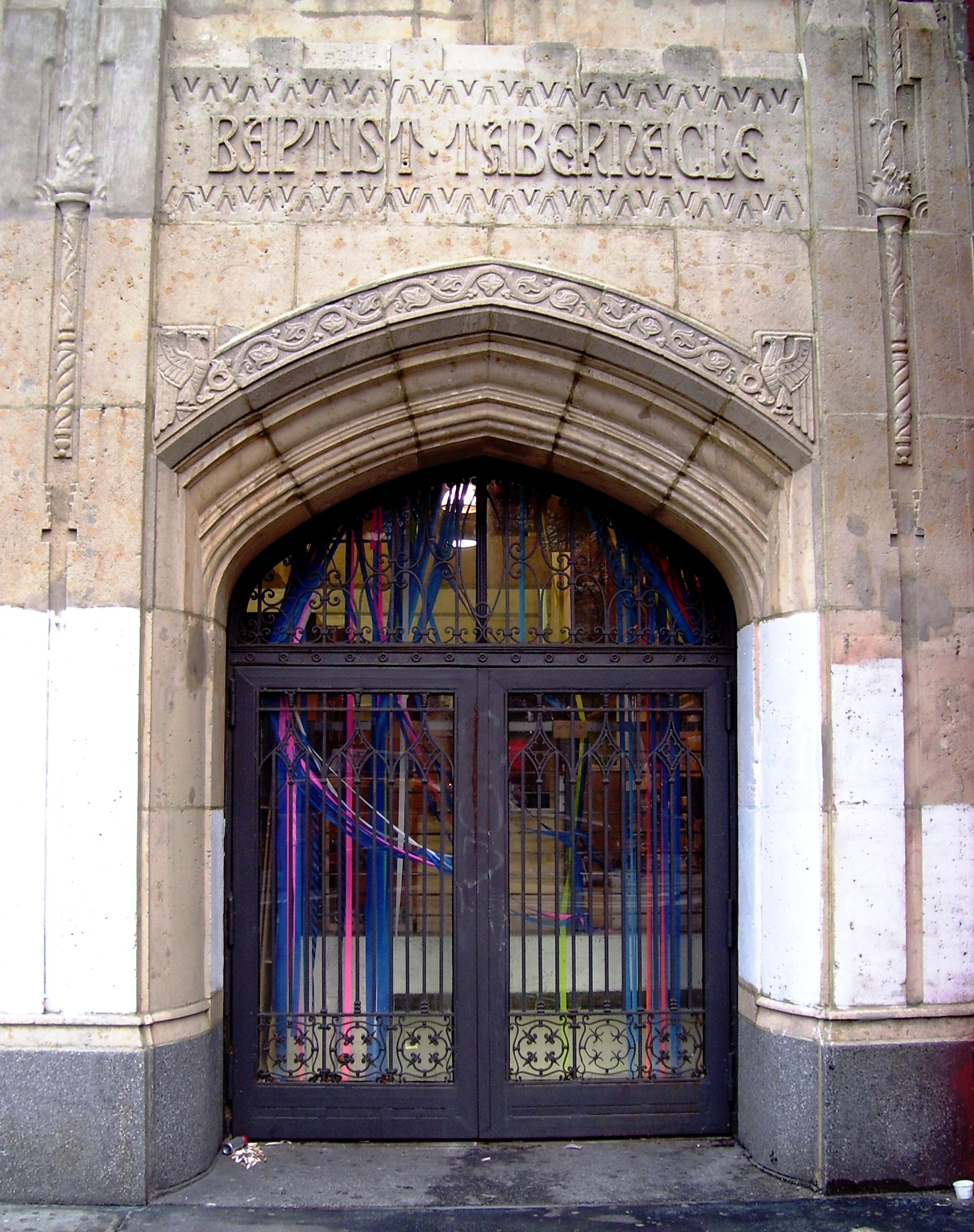 Warren Hall at 168 Second Avenue between East 10th and 11th Streets in the East Village neighborhood of Manhattan, New York City, was built in 1928-30 as a "skyscraper church" for the Baptist Tabernacle, on the site of their previous church, Second Avenue Baptist, which was built in 1850. In the 1940s, the new building hosted Italian, Russian and Polish Baptist Congregations. (Source: From Abyssinian to Zion (2004))